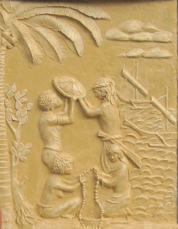 Historical Landmark in San Joaquin, Iloilo marking the spot traditionally referred to as the place where the Barter of Panay took place.